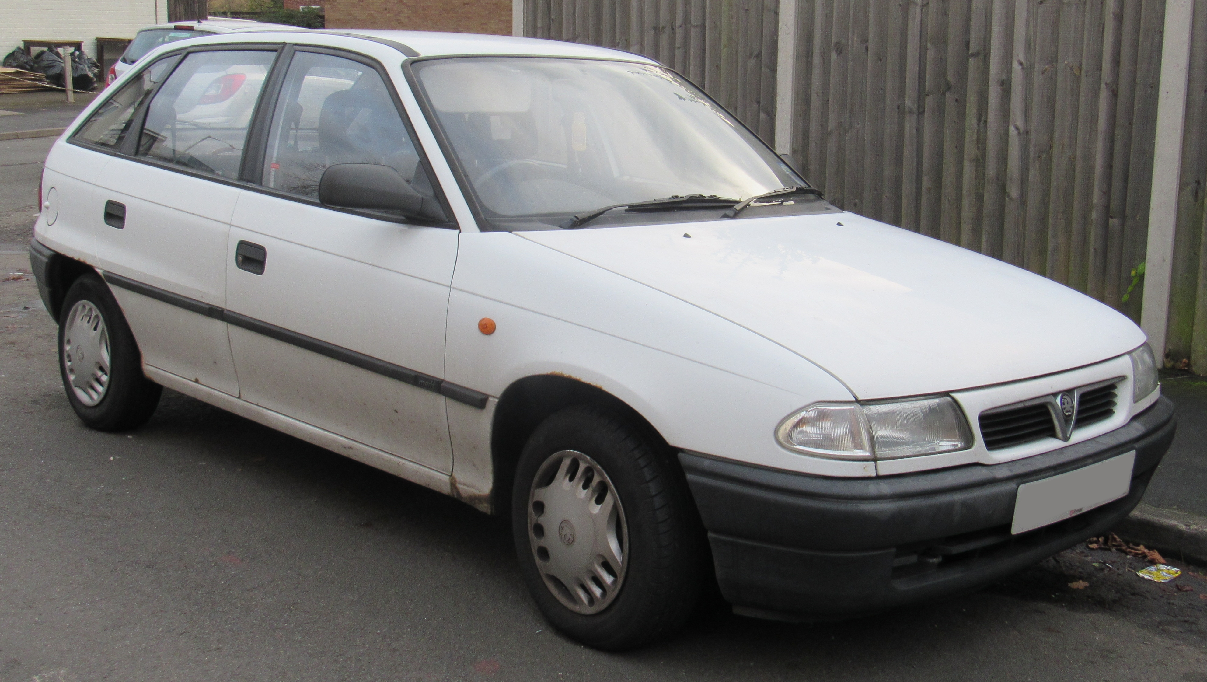 1995 Vauxhall Astra Merit 1.4 Front Taken in Warwick